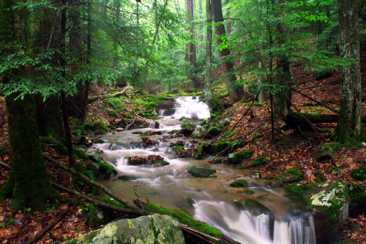 Holly River — in Holly River State Park, Allegheny Mountains, West Virginia. Run 3